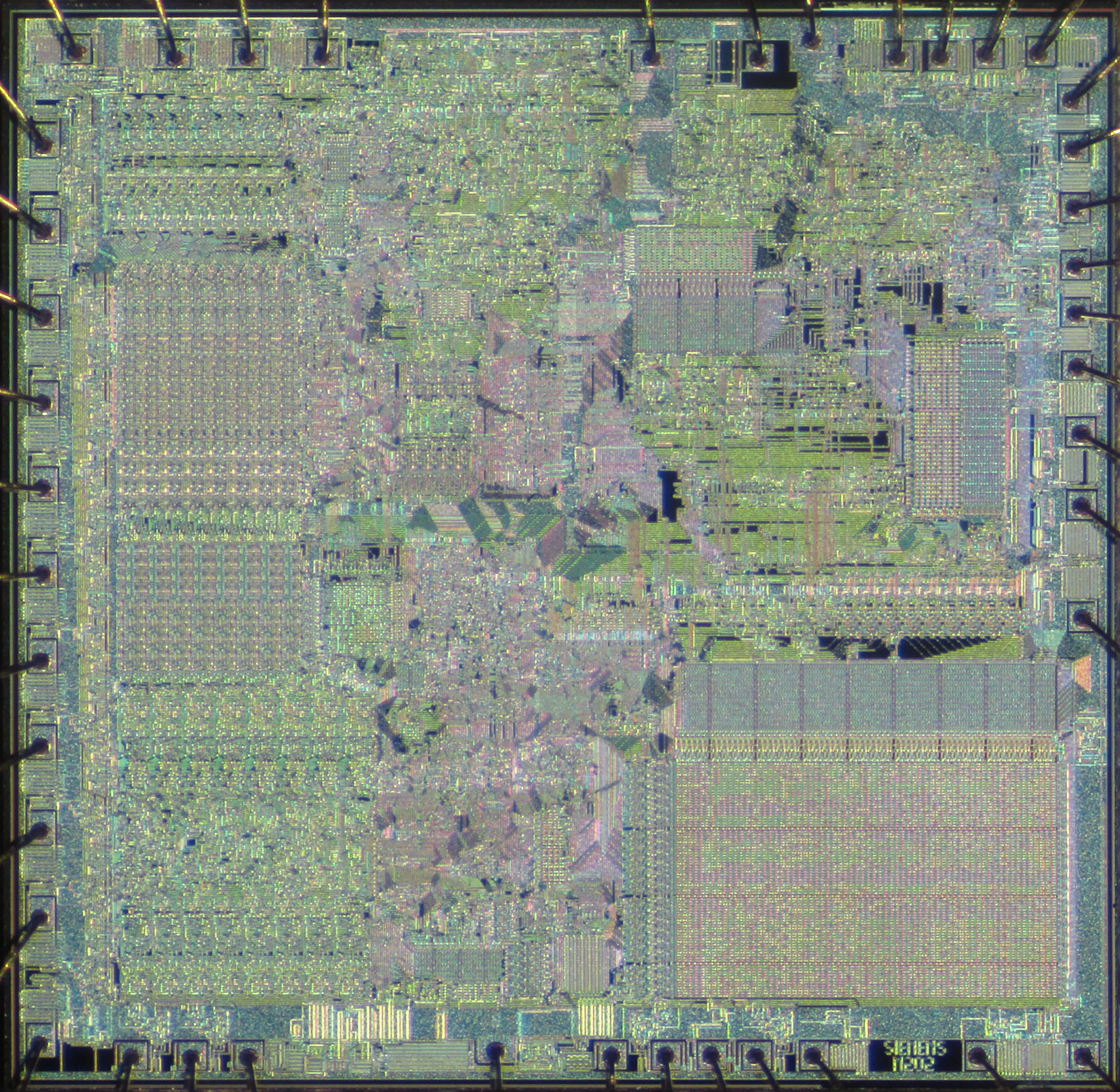 Die shot of Siemens SAB 8086 microprocessor (SAB 8086-2-C).